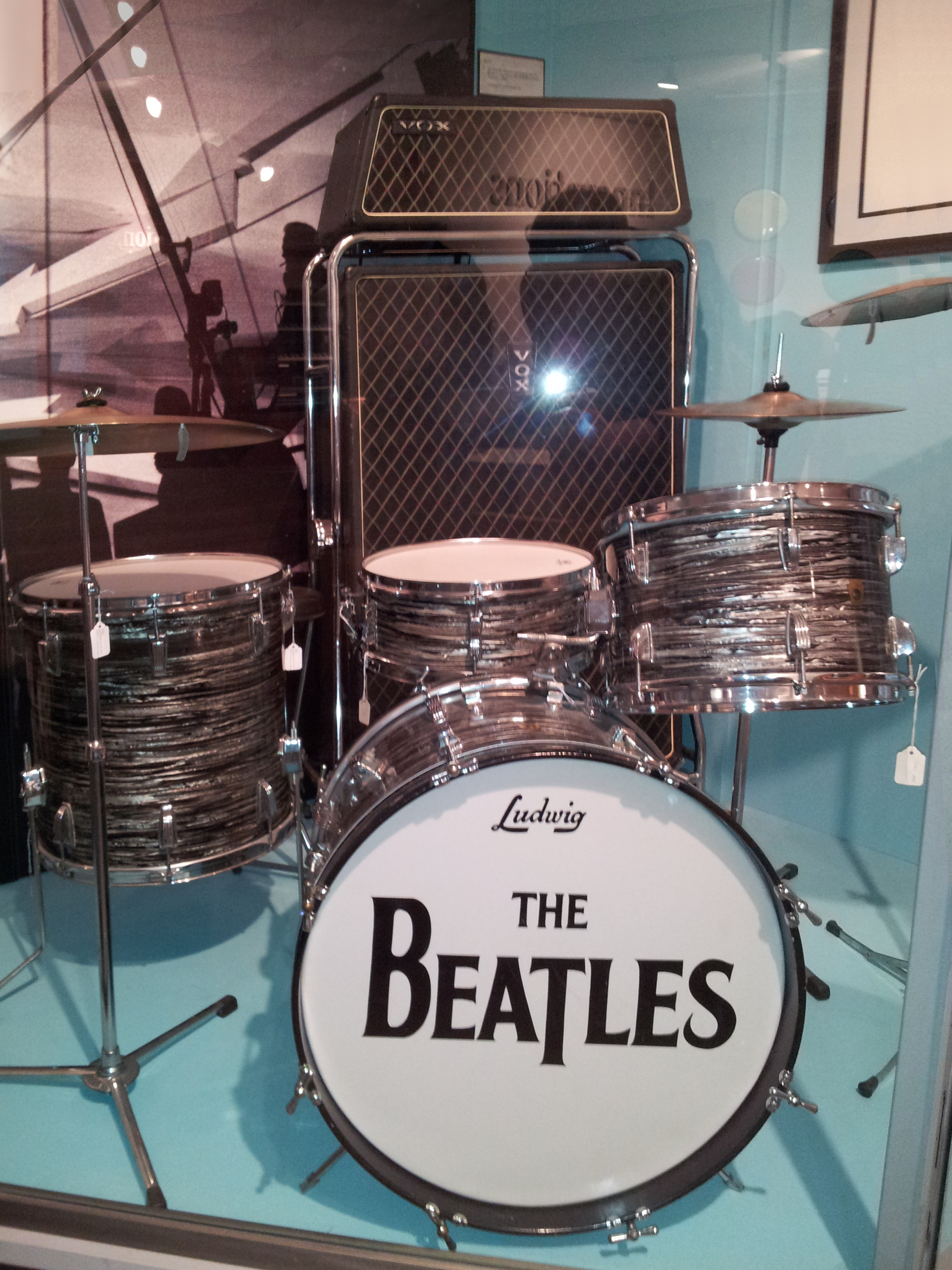 Vox Super Beatle amplifier, Beatles Ludwig drumset, Museum of Making Music “I believe these were replicas, not the authentic instruments.” —doryfour EDIT: slightly corrected the perspective.